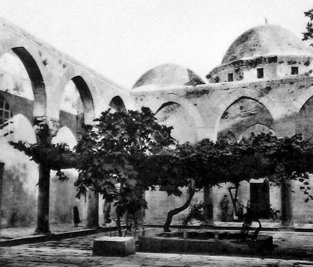 The courtyard of the Firdaws Madrasa, as seen from its iwan